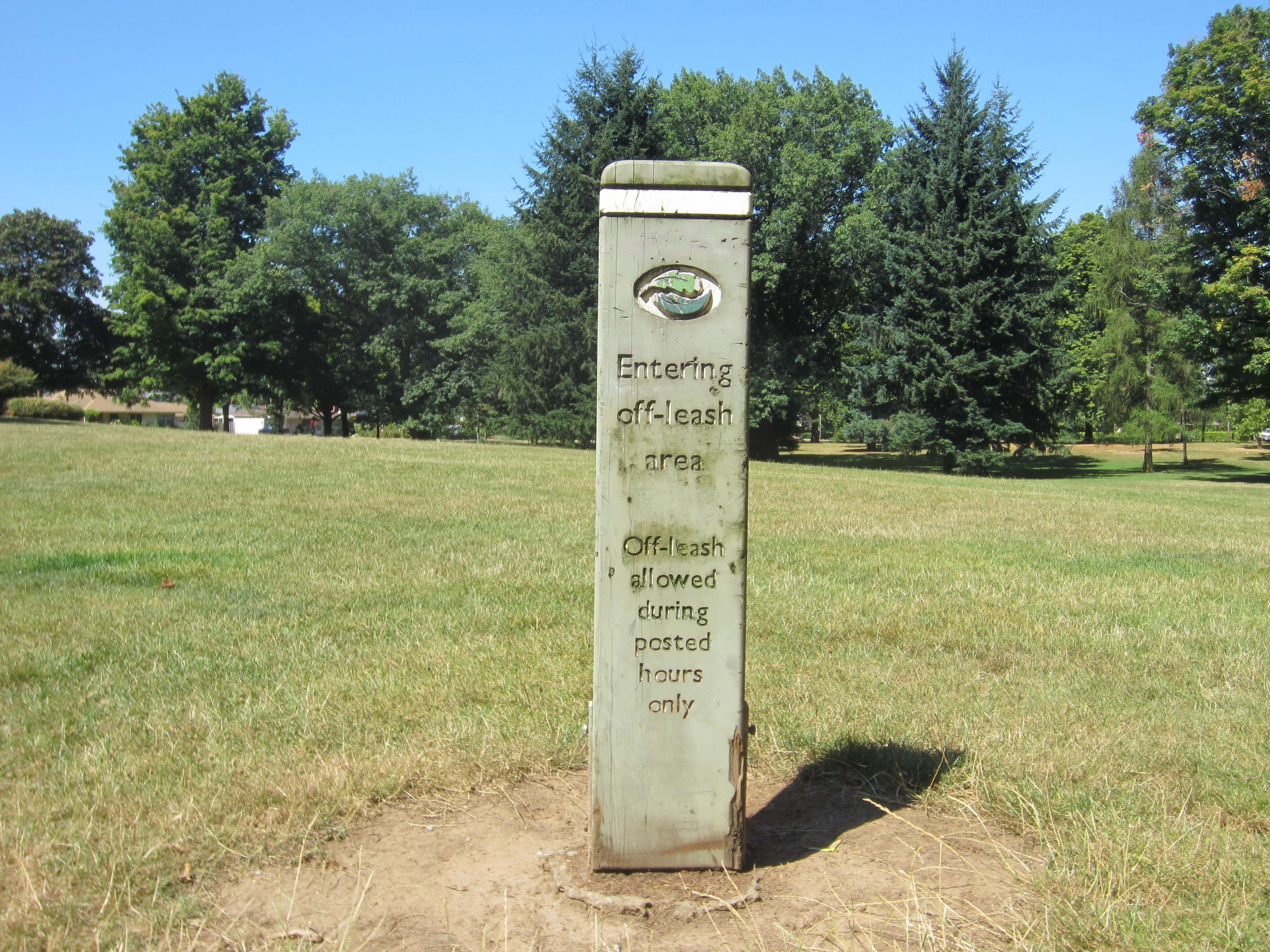 Woodstock Park in the Woodstock neighborhood of southeast Portland, Oregon in 2012